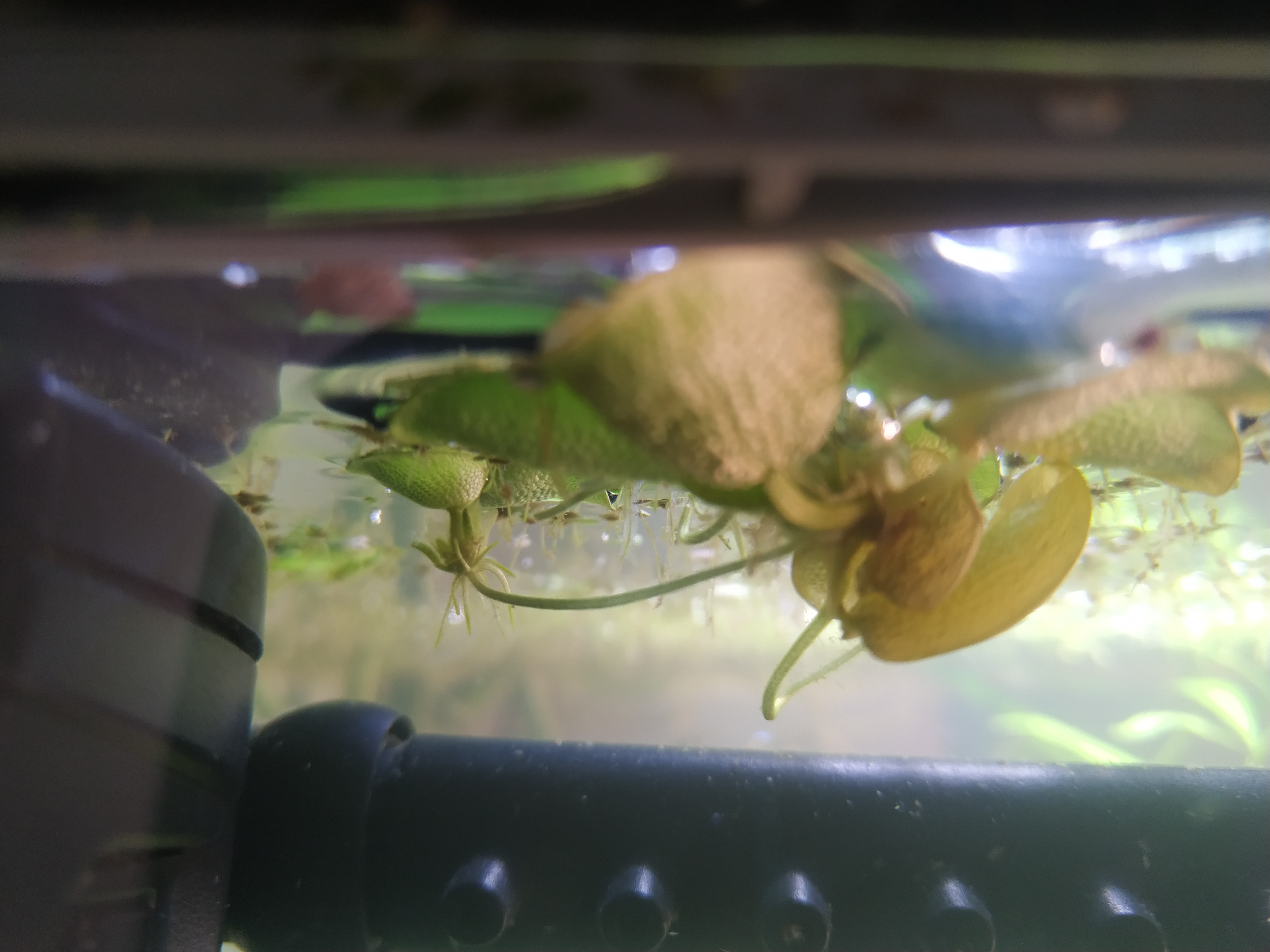 Frogweed